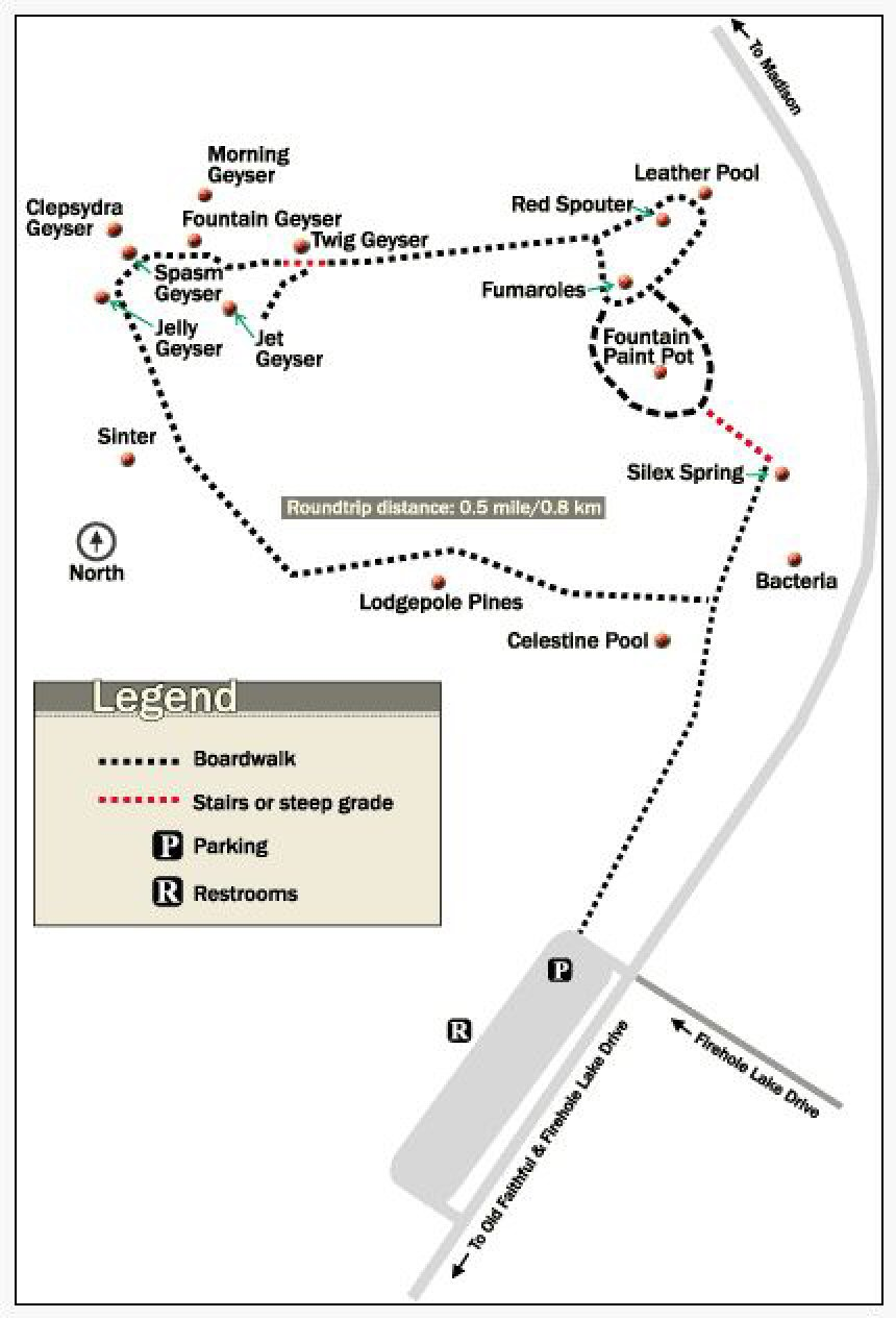 Map of Fountain Paint Pots Thermal Area, Yellowstone National Park, Wyoming